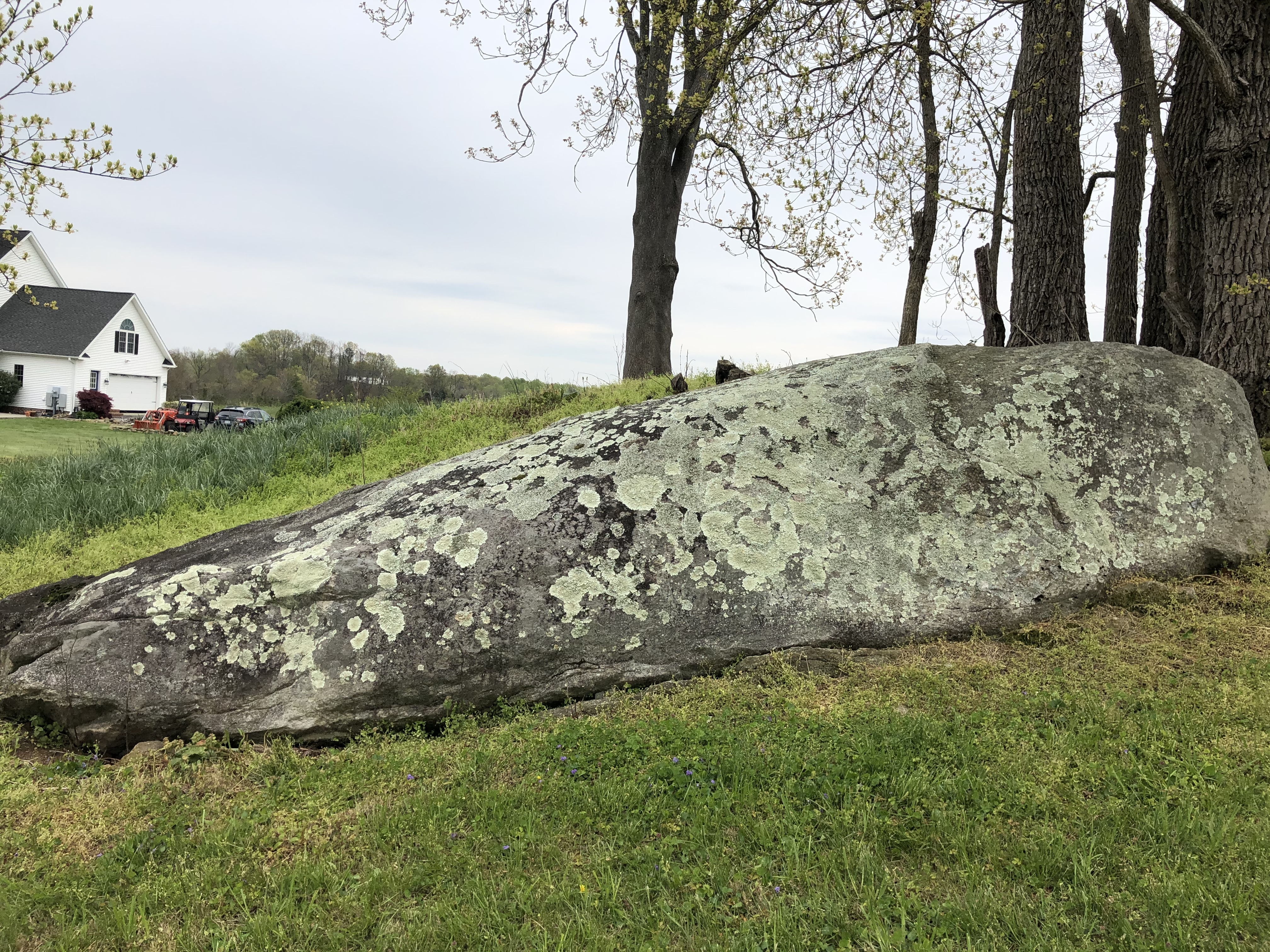 The octonia stone was a pre-revolutionary marker for the octonia grant.